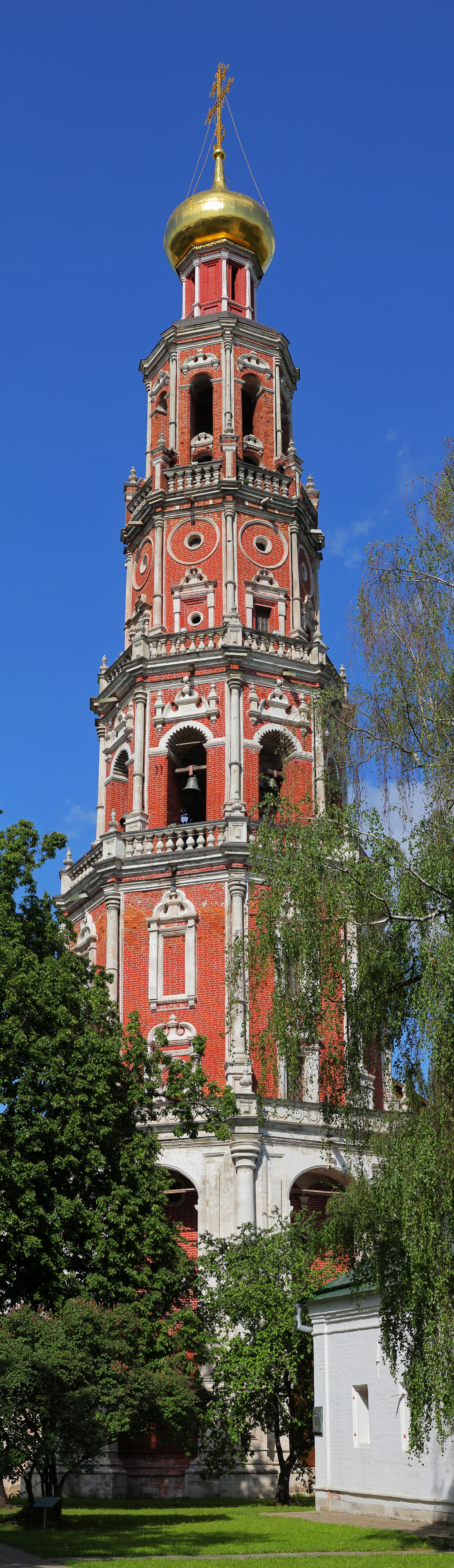 Moscow, Russia. Novodevichy Convent. Bell Tower.